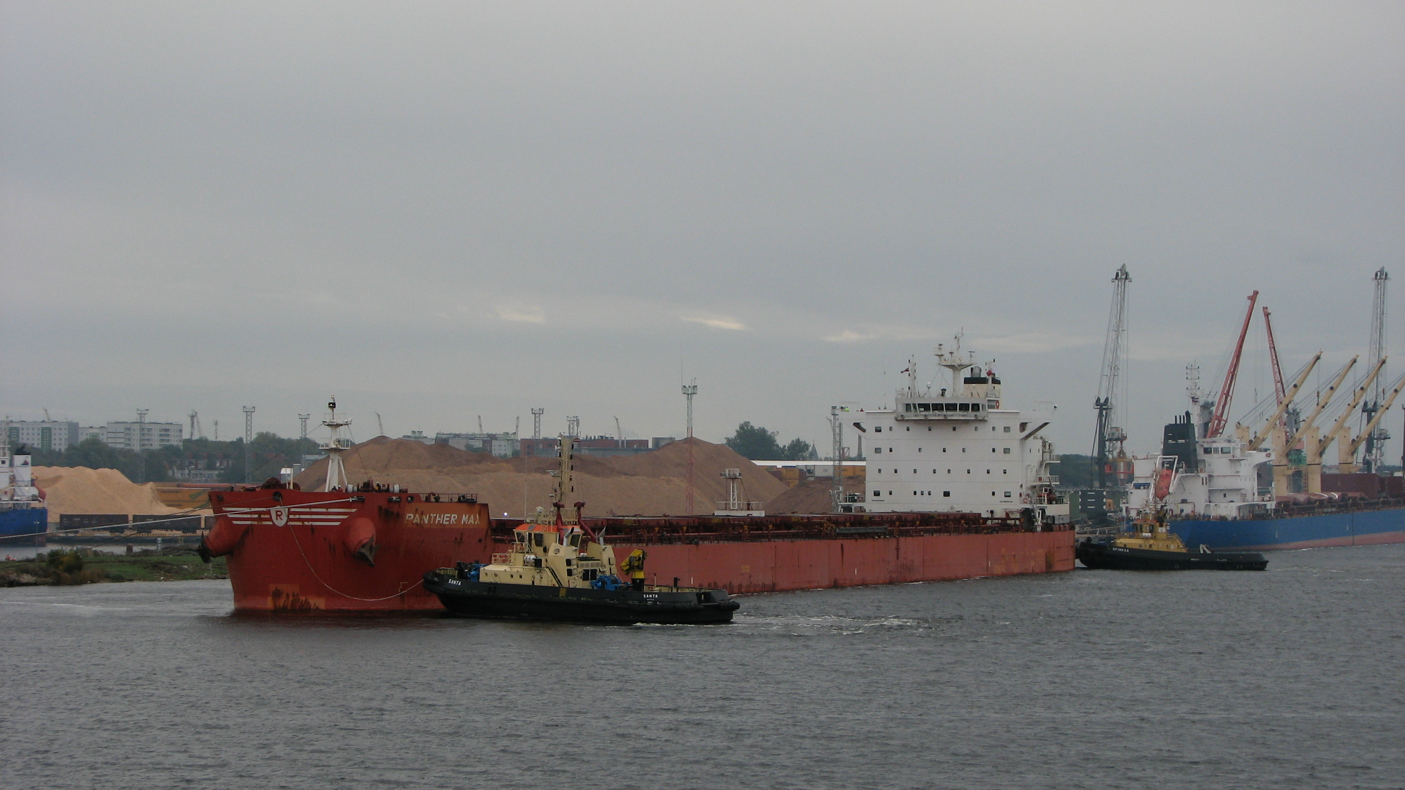 Santa,Sfinksa_and_Panther_Max